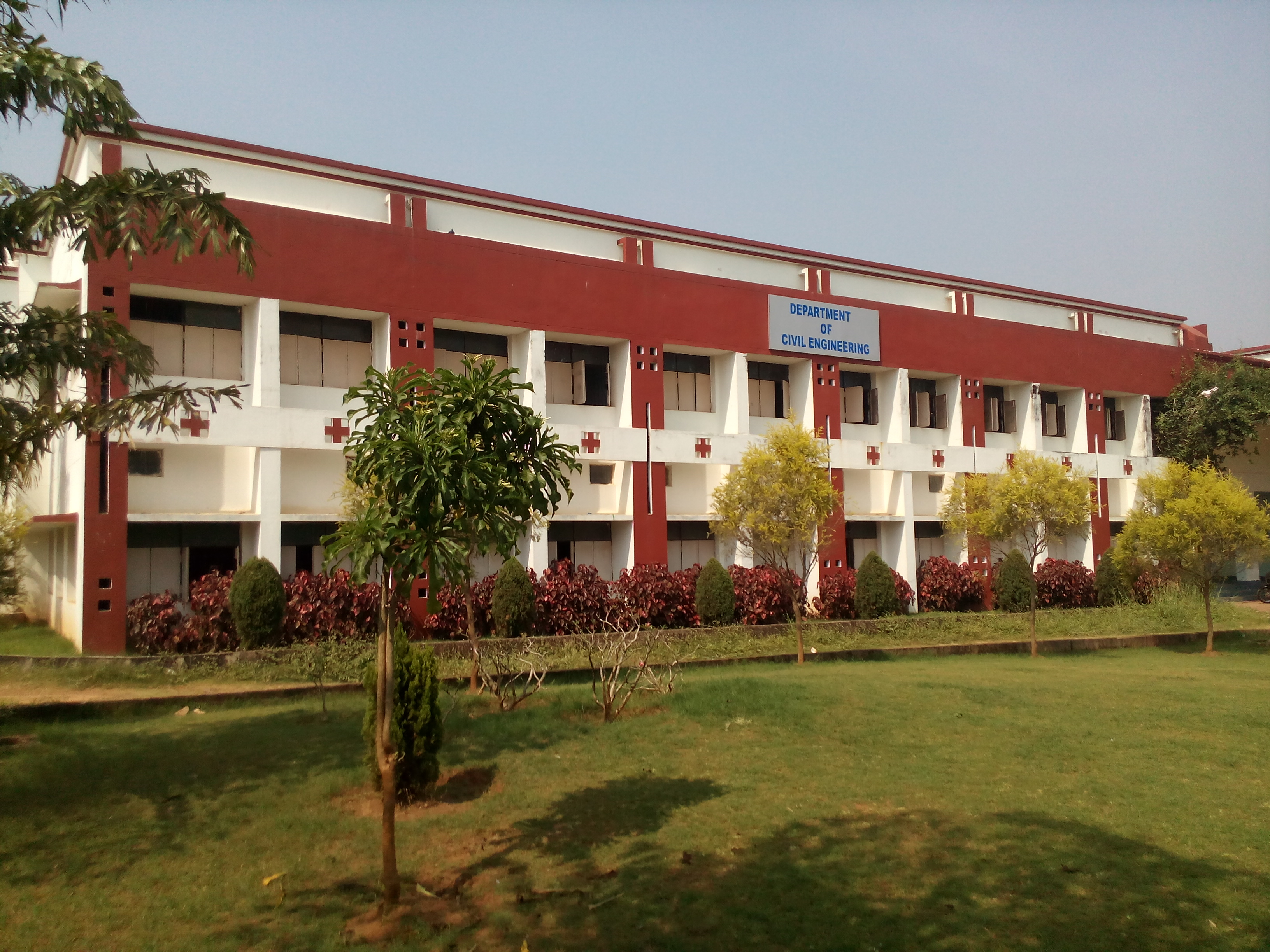 This is the Civil Engineering department Block of Orissa Engineering College, Bhubaneswar